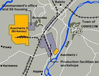 Map of Auschwitz Concentration Camp and environs, 1944